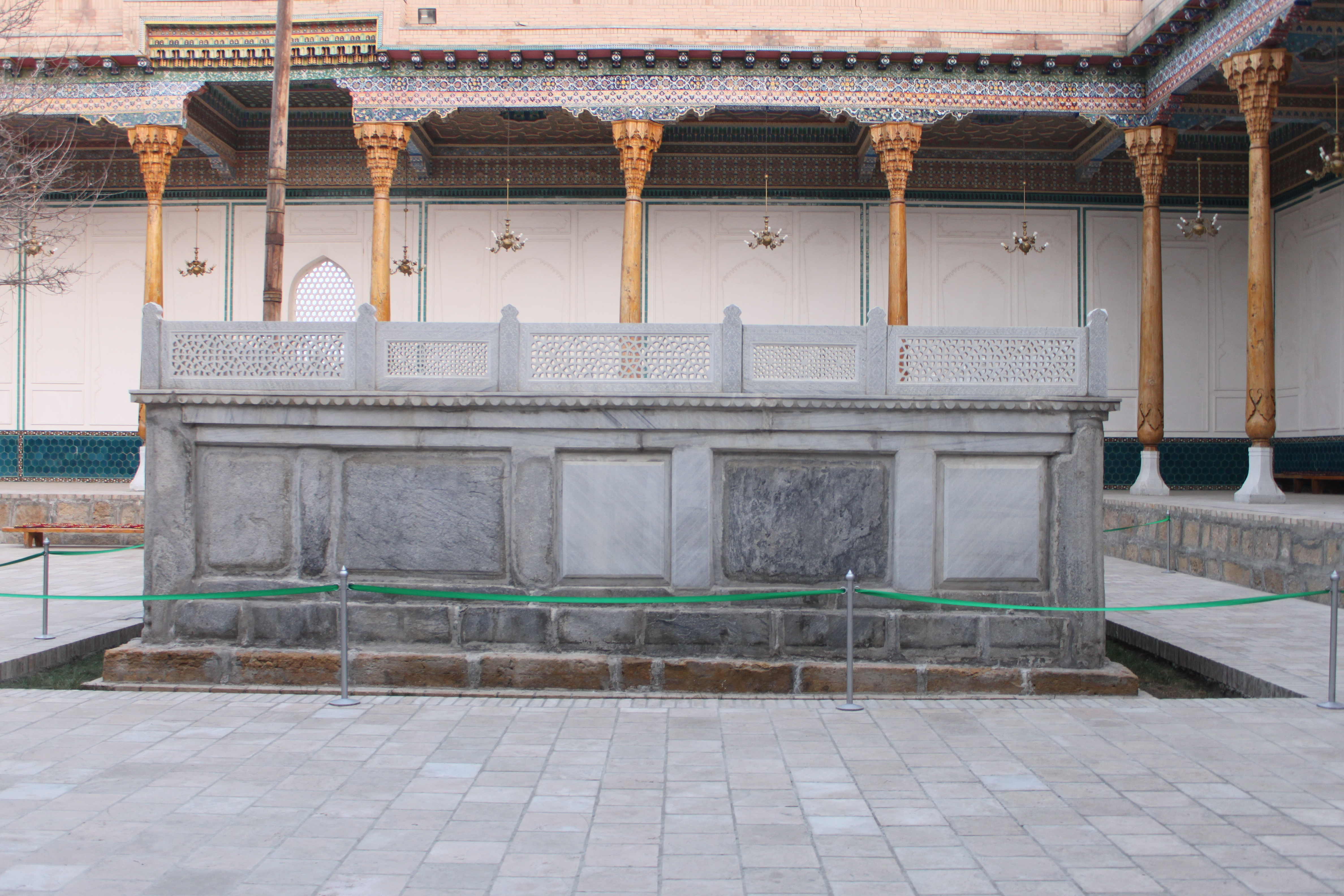 Dakhma of Baha-ud-Din Naqshband, Baha-ud-Din Complex, Bukhara, Uzbekistan